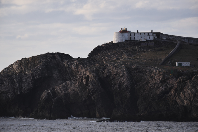 Eagle Island Lighthouse, County Mayo